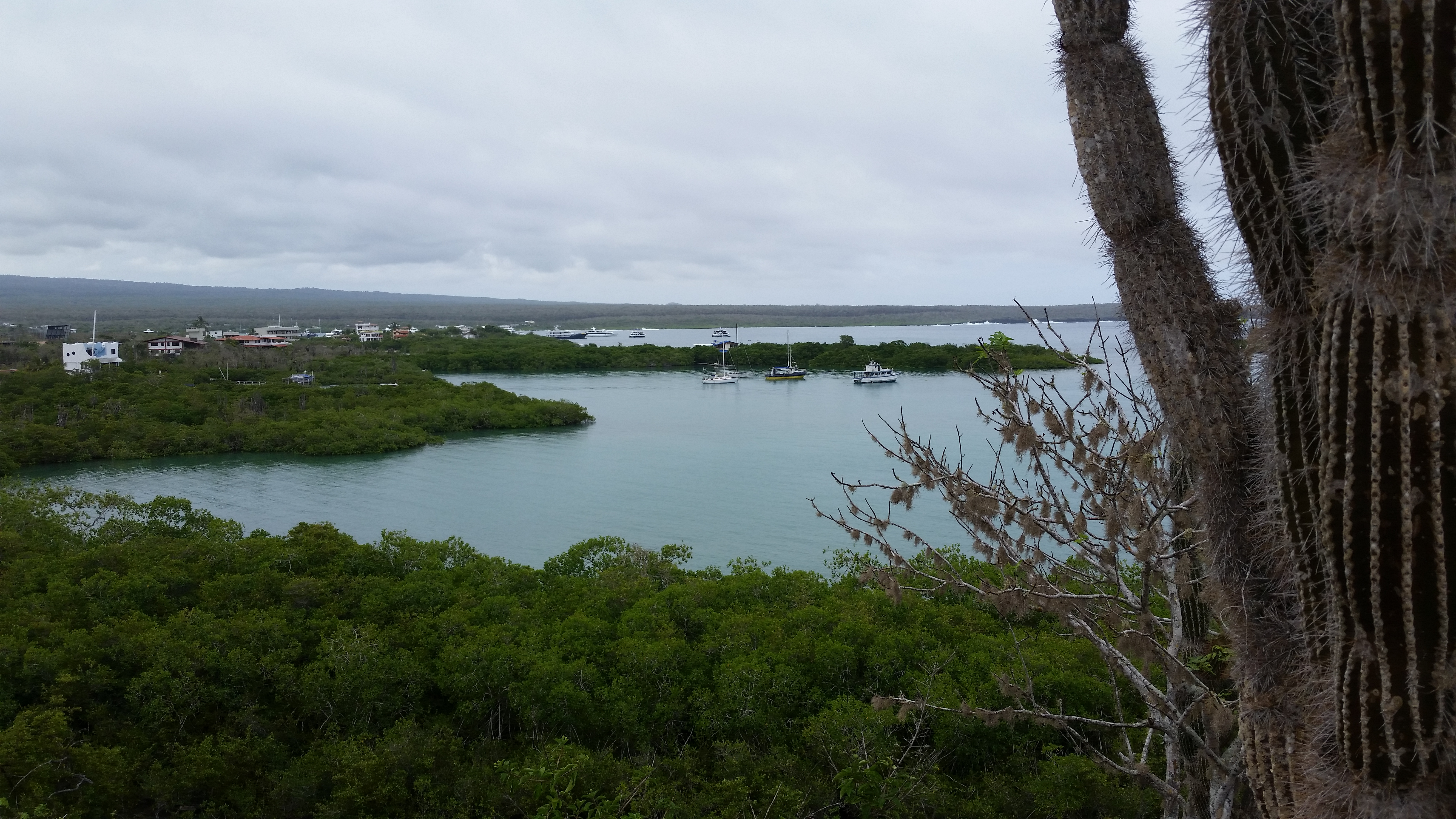 Academy Bay, Isla Santa Cruz, Galapagos Islands